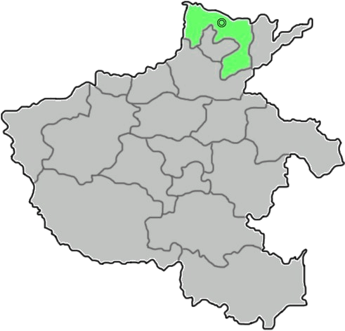 The prefecture-level city of Anyang is highlighted on this map of Henan province, People's Republic of China.